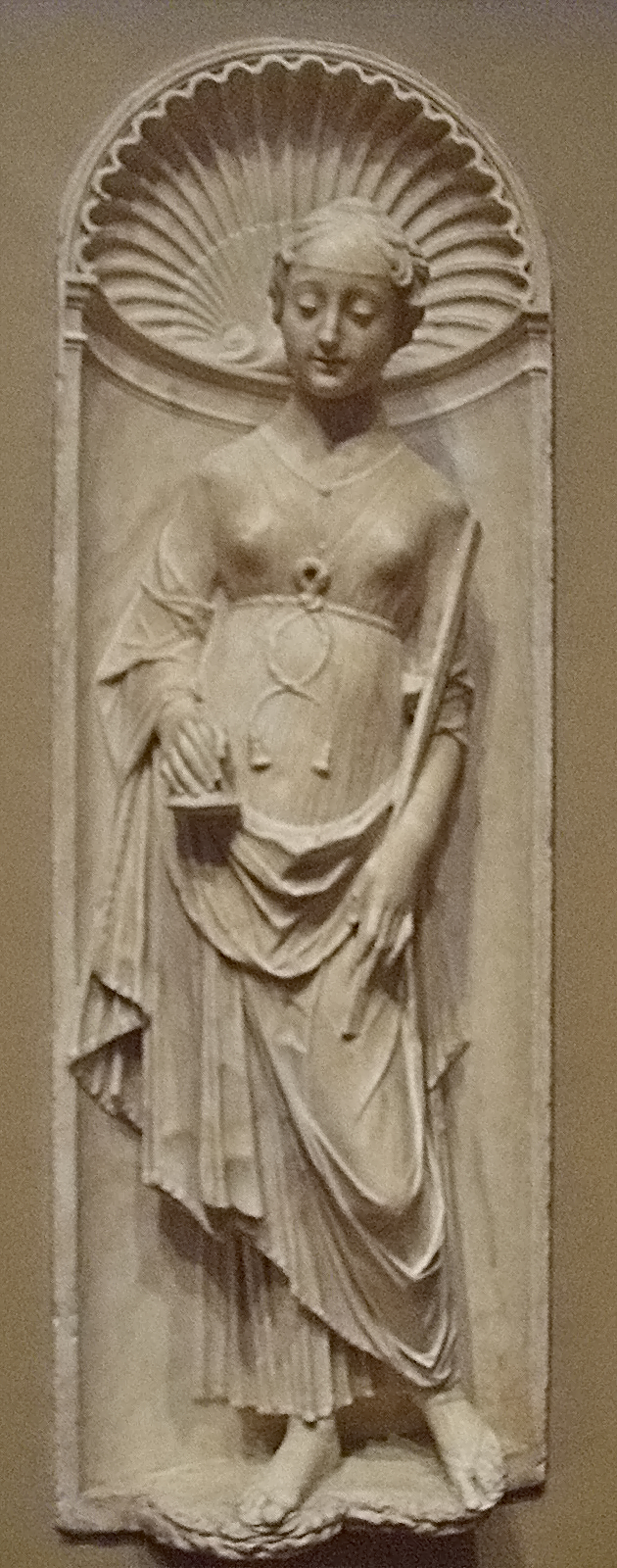 National gallery in washington d.c., mino da fiesole, fede, 1475-1480